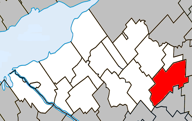 Location of Sainte-Eulalie, Quebec within Nicolet-Yamaska Regional County Municipality.